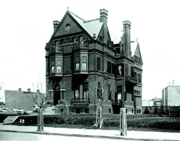 The Pendleton House, built in 1881 for Senator George H. Pendleton, was located at 1313 16th Street NW in Washington, D.C. The house was demolished in 1941 and replaced with the General Scott apartment building.